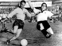 Hamrin scores against Germany (WC 1958)